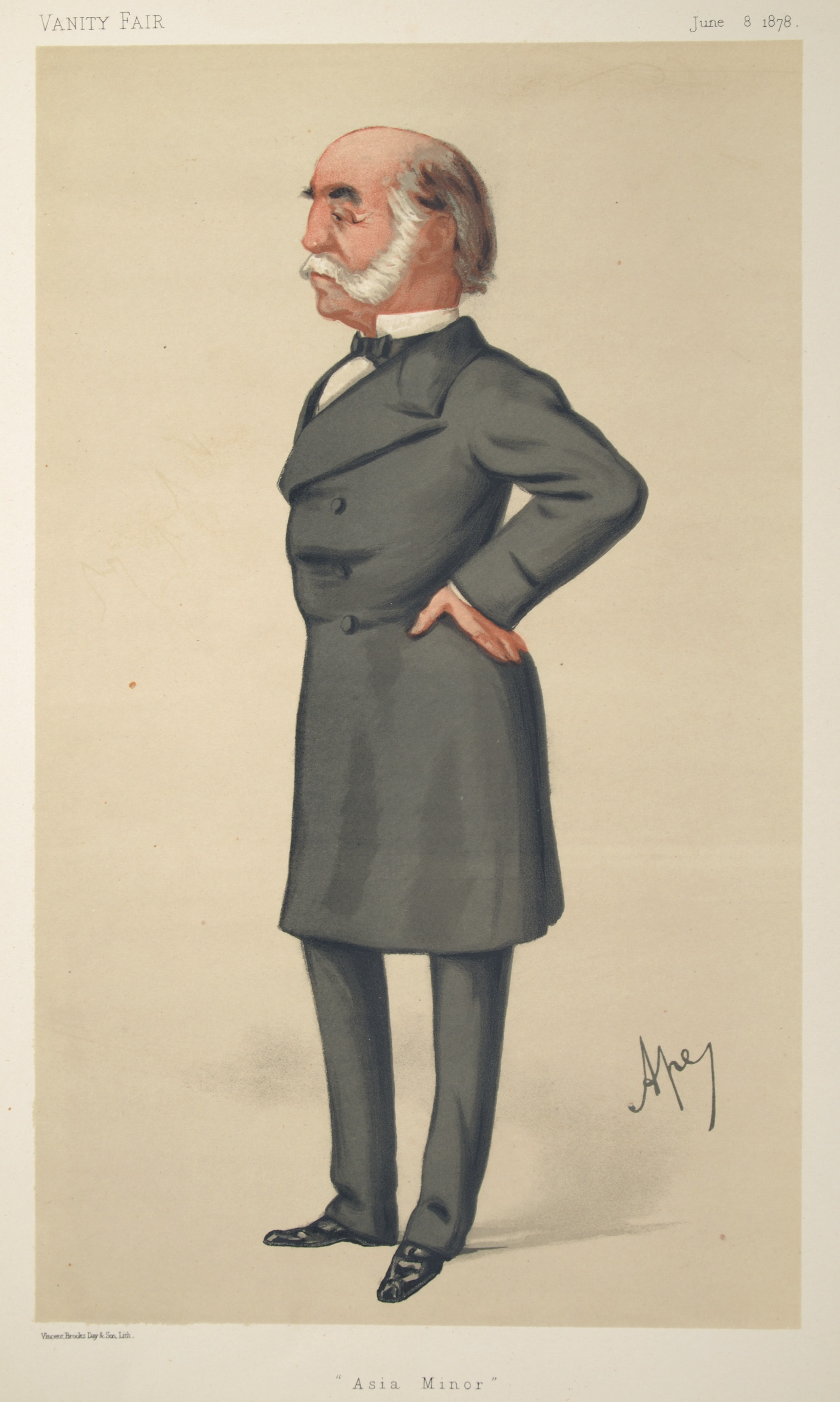 Men of the Day No.180: Caricature of Lt-Gen Sir Arnold Burrowes Kemball KSCI CB. Caption reads: "Asia Minor"